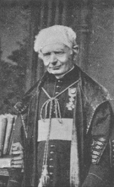 Alexandre Namèche (1811-1893), rector of the Catholic University of Leuven (1872-1881).